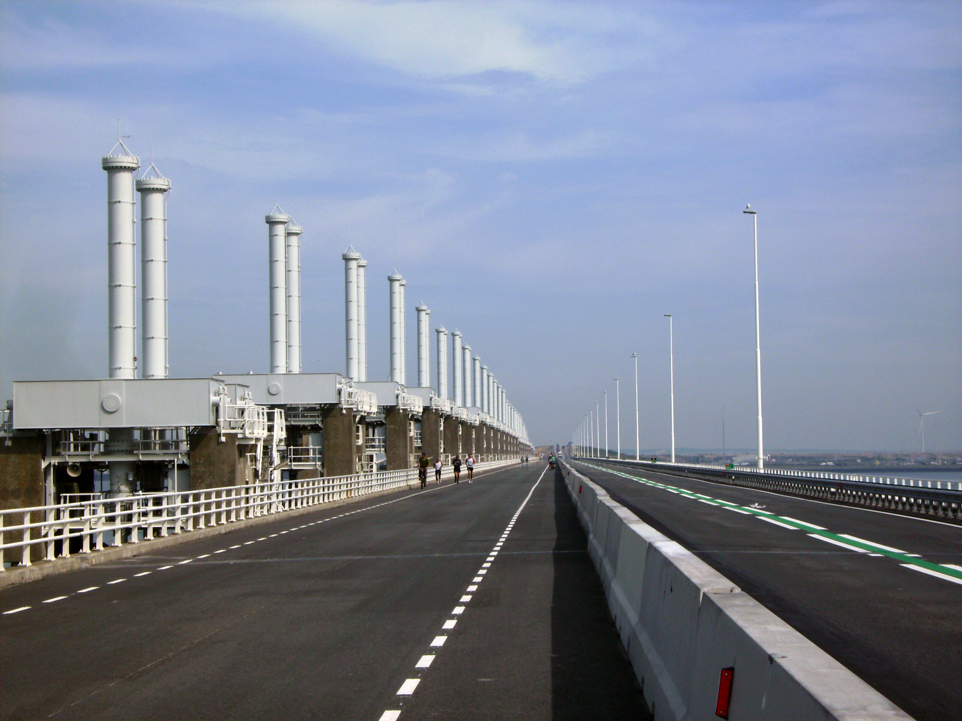 The 'Oosterscheldekering' (Eastern Scheldt storm surge barrier) in (side of Vrouwenpolder) Zeeland, the Netherlands.